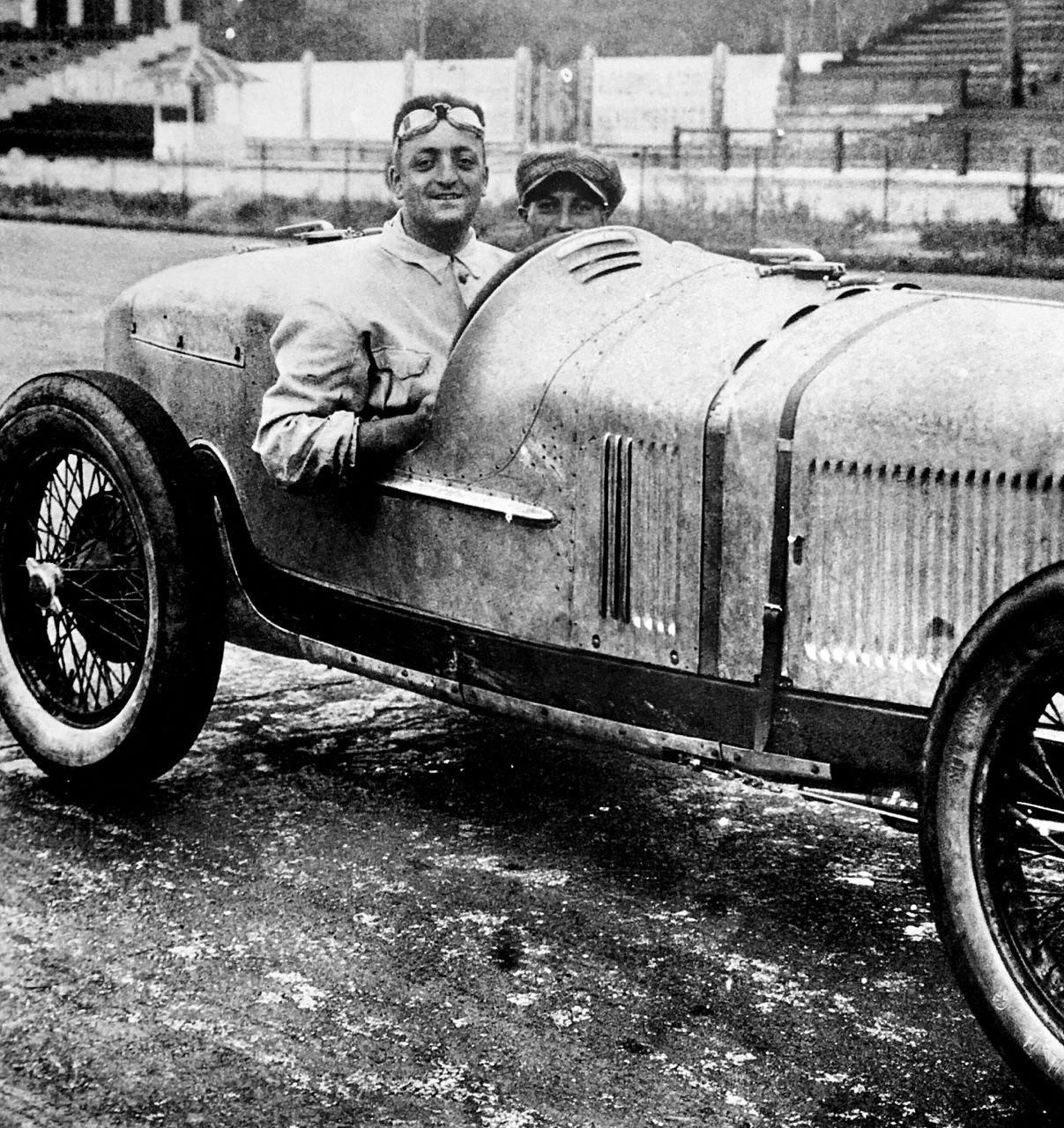 Enzo Ferrari (left) and his mechanic Eugenio Siena (right) wins Coppa Acerba at Pescara on 13 July 1924 in Alfa Romeo RL.[1]